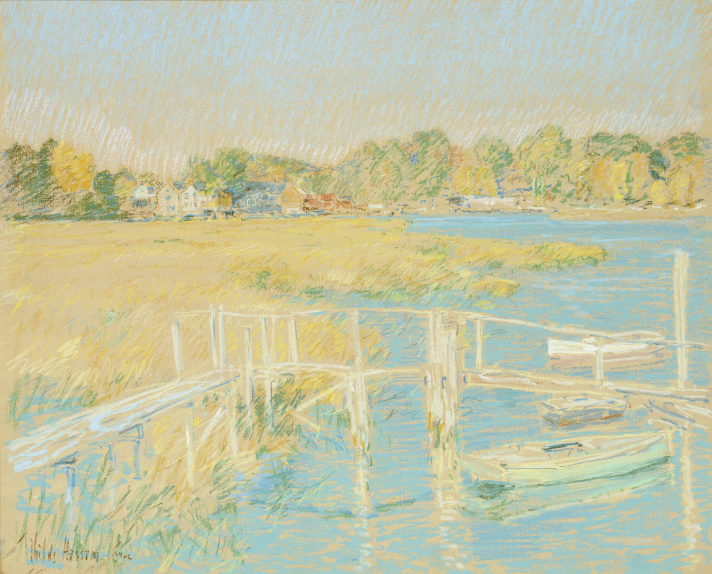 Up the River, Late Afternoon, October